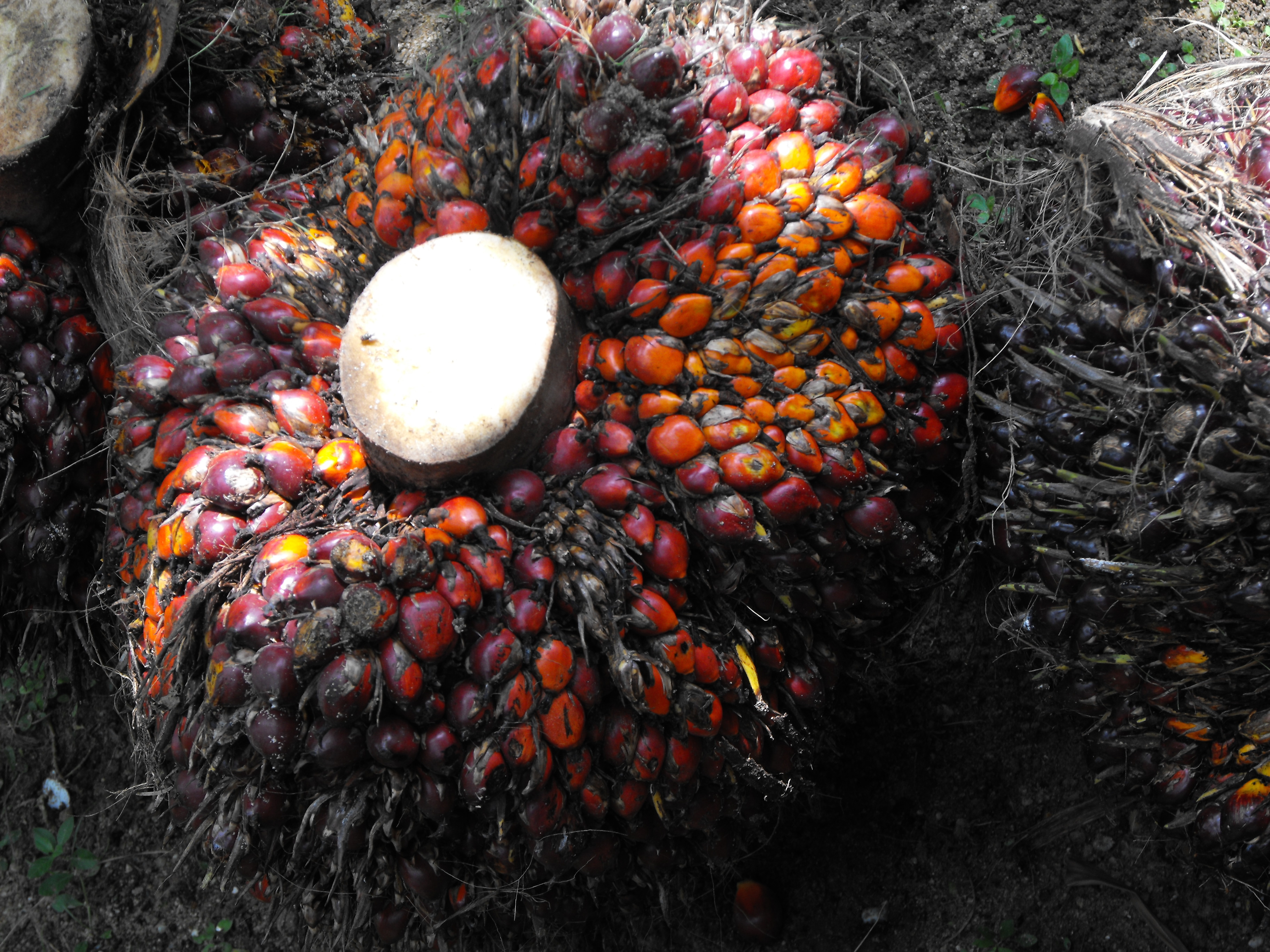 Joe climbs the tree in spitting rain and cuts down three large palm fruit bunches. The rains started late this year, so harvesting of palm fruits were postponed until just after the first heavy rains. According to Northern Cross River custom, the fruits must drink one heavy dose of rain and have one vigorous vacuuming of chaff from the fruit bunches before they are brought down. The fruits are allowed no more rain and covered up with large banana leaves, left to soften for a few days. This is an image of food from Nigeria